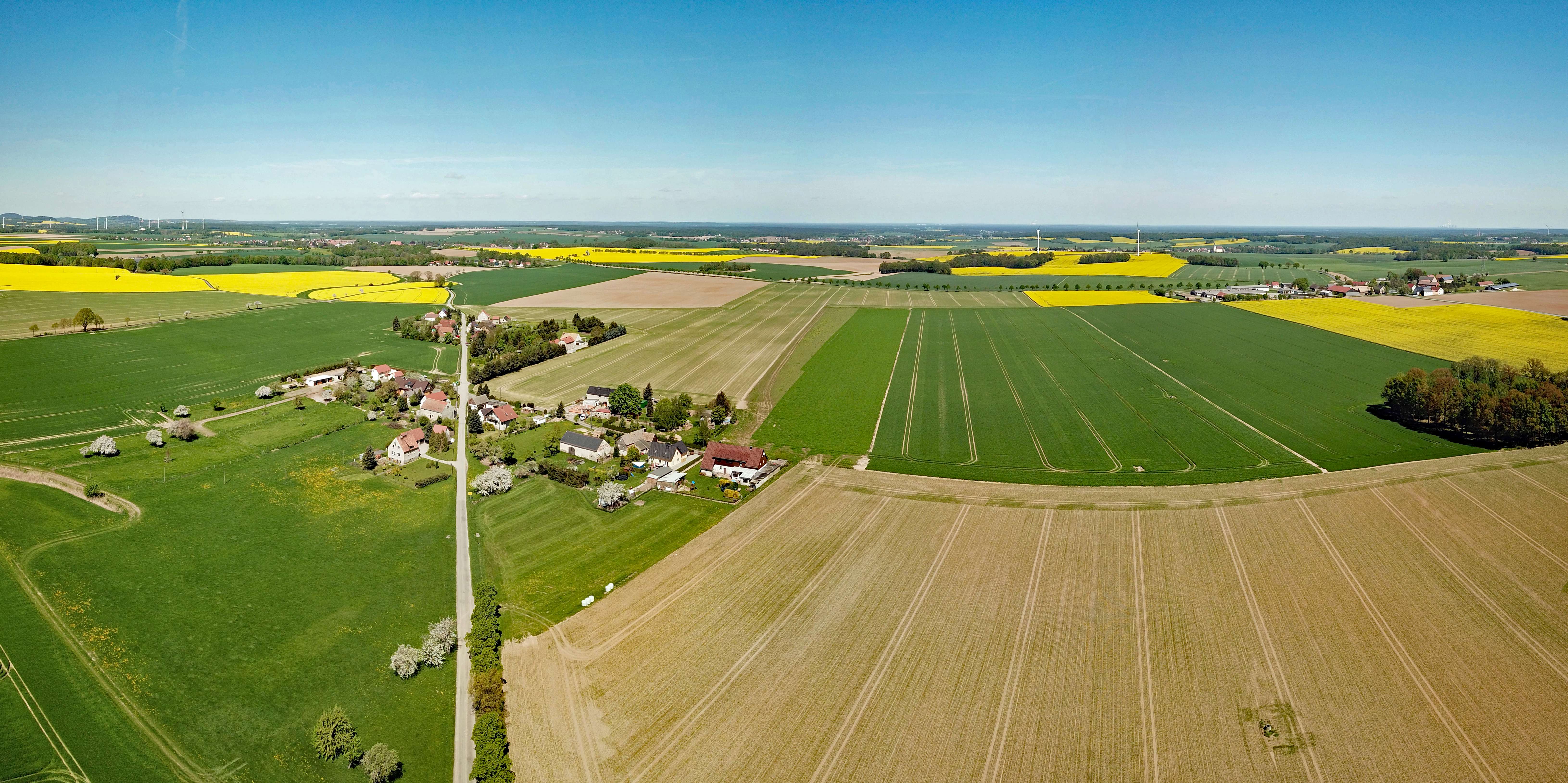 Neuhof (Burkau, Saxony, Germany) Hornjoserbsce: Powětrowy wobraz Noweho Dwora pola Porchowa.